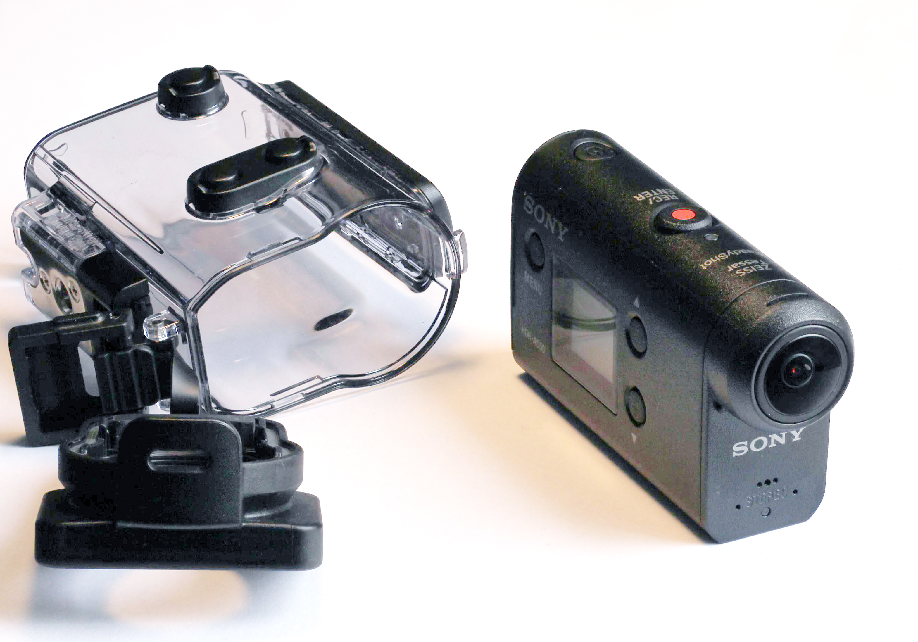 Sony HDR-AS50 Action Cam with Underwater Housing (MPK-UWH1) This image was created with Zerene Stacker